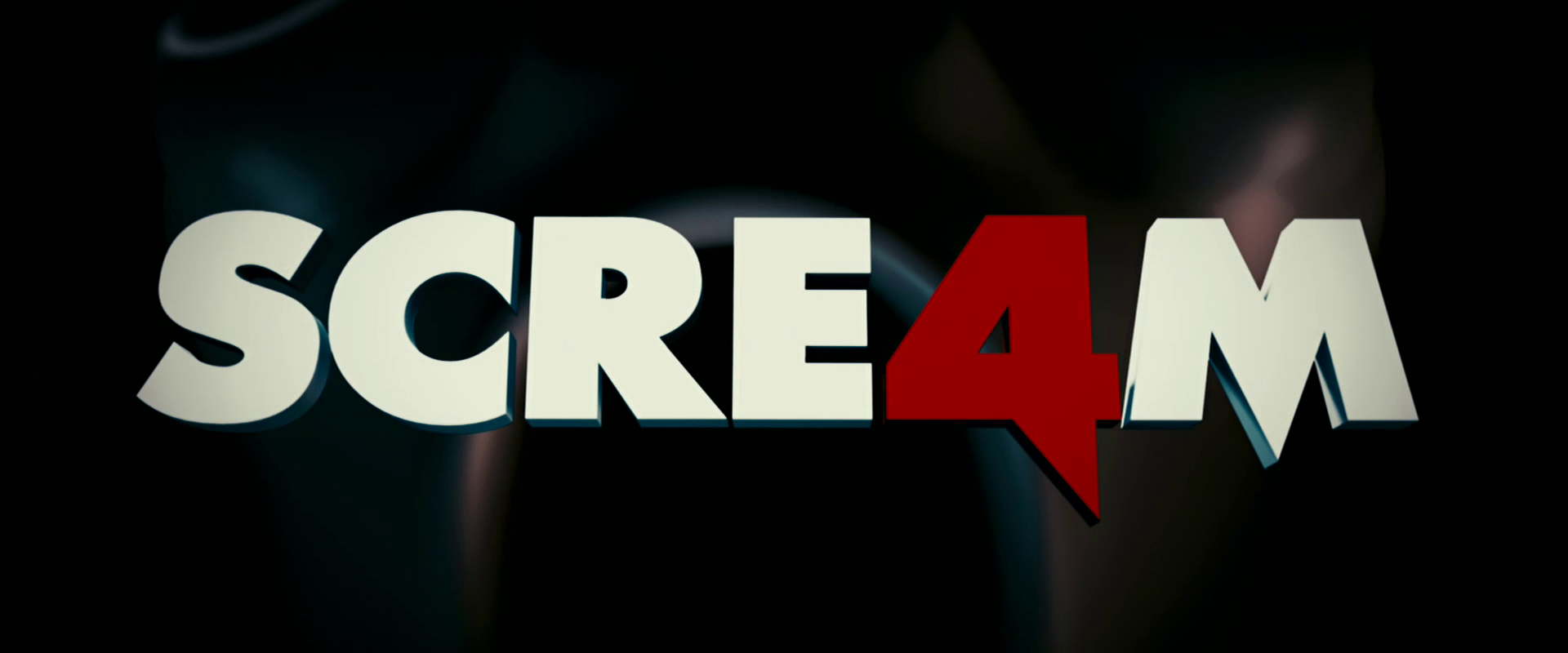 Logo of Scream 4 movie